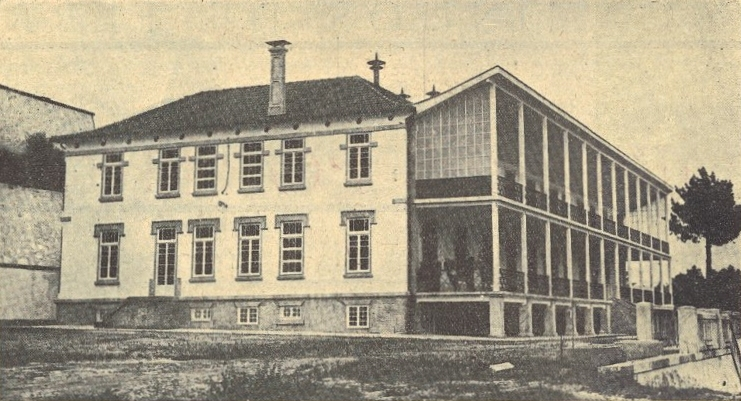 Photograph of the Presidente Carmona Sanatorium, in Paredes de Coura, Portugal, showing the front of the building and the West side. This image was published in the Gazeta dos Caminhos de Ferro magazine No. 1122, of 16th September 1934, and scanned by the Hemeroteca Municipal de Lisboa.